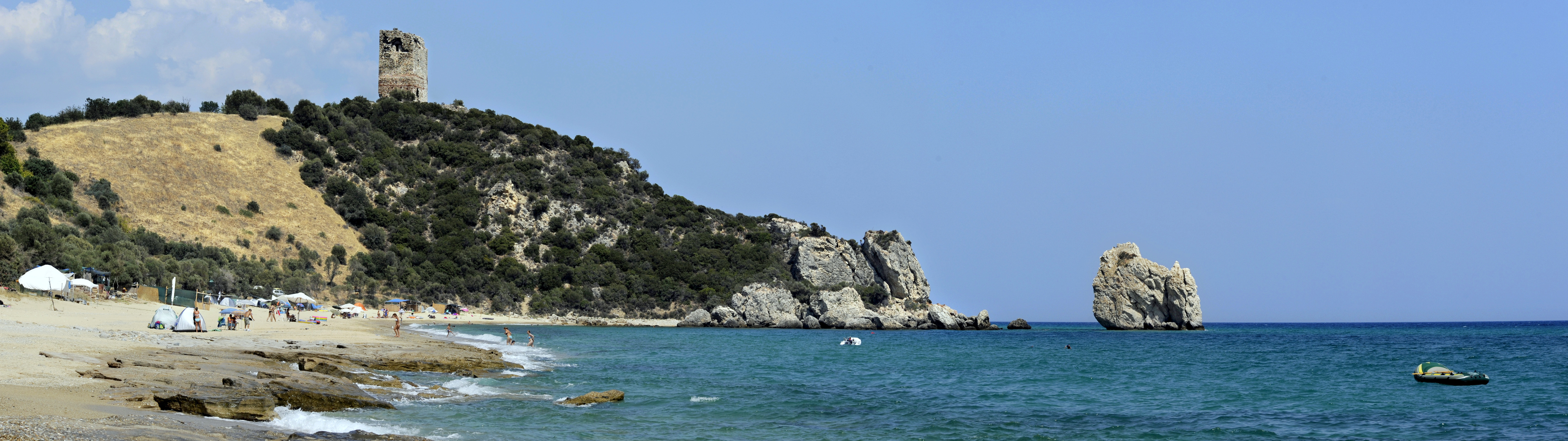 Appolonia Tower, Kavala, Greece.